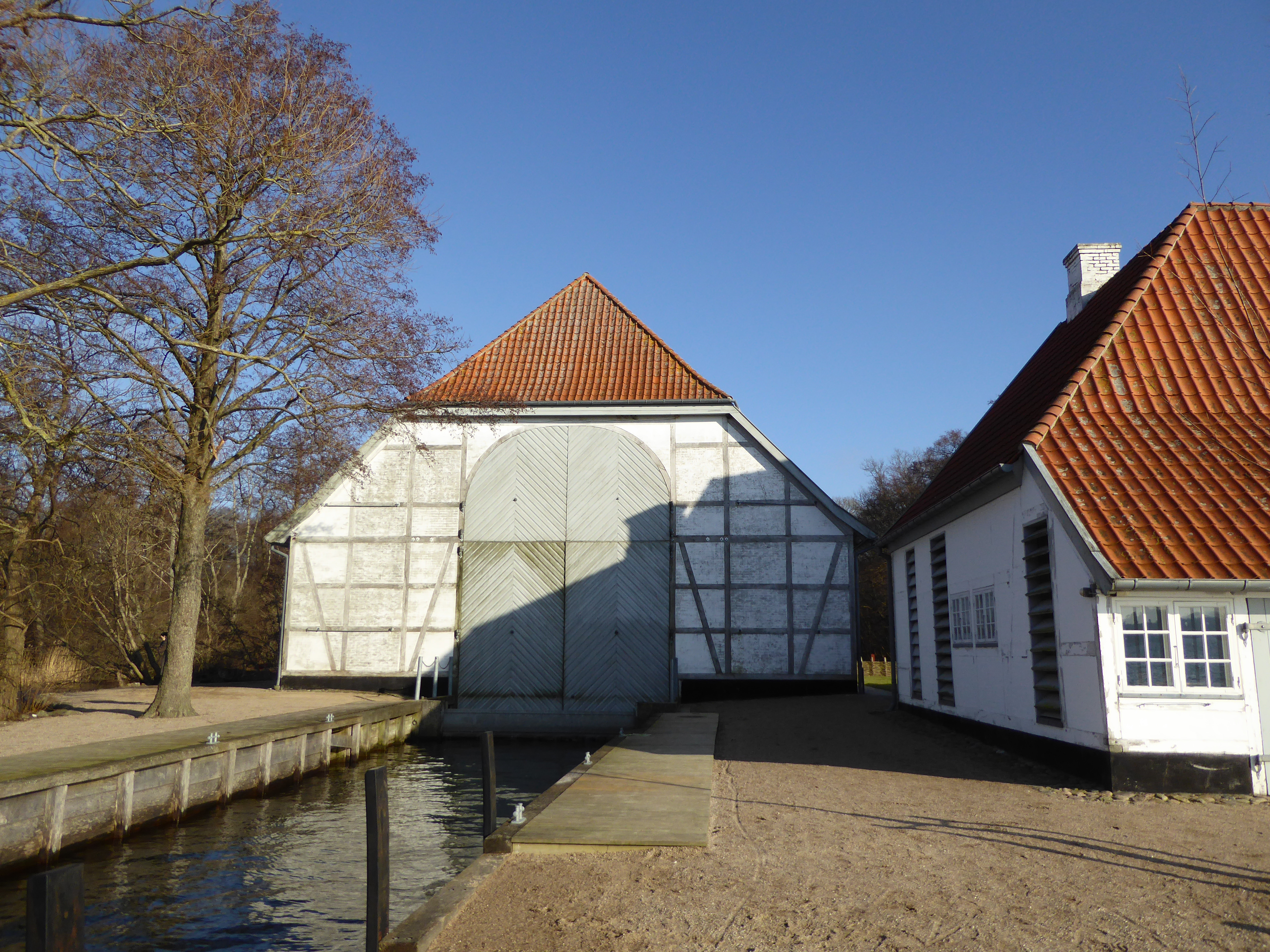 Skipperhuset in Fredensborg, Denmark